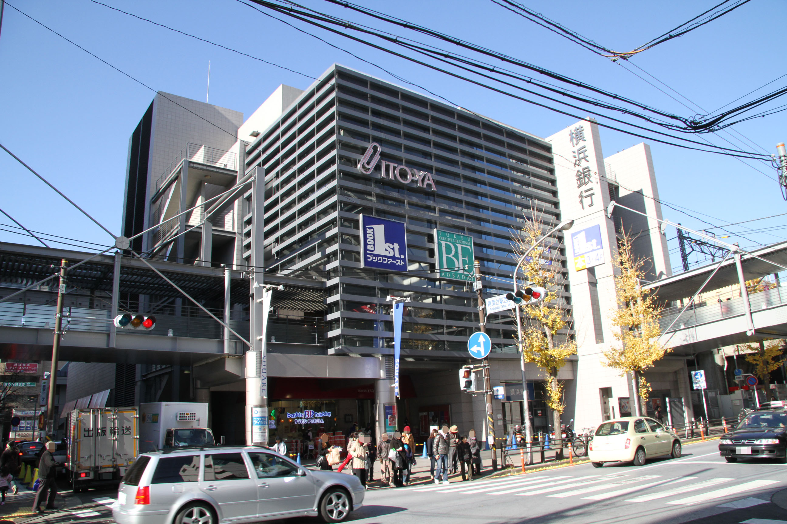 Aobadai Tokyu Square (S-1 annex building), Aoba-ku, Yokohama, Kanagawa, Japan